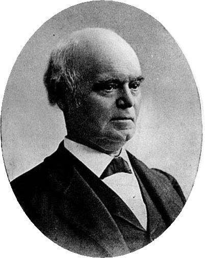 Portrait of Albon Man